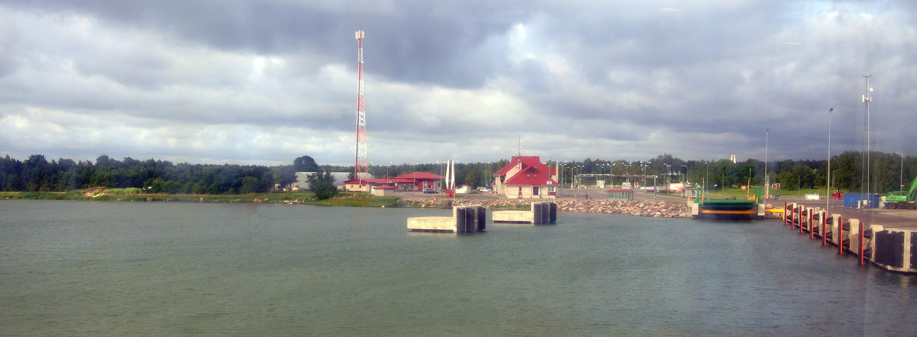 Heltermaa port on July 16, 2012.